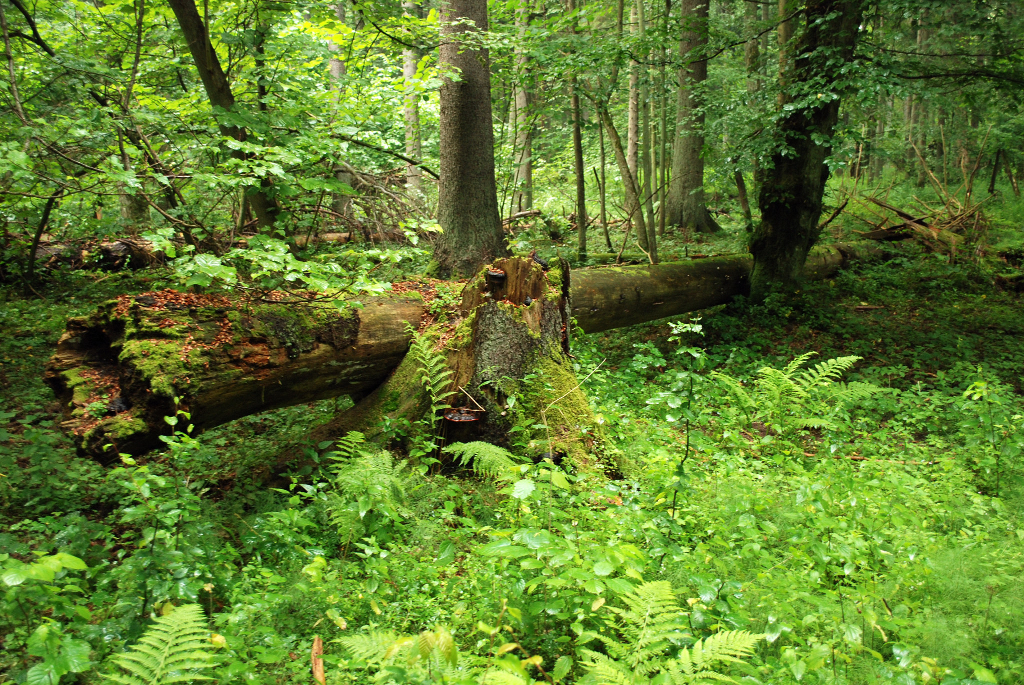 Białowieski National Park